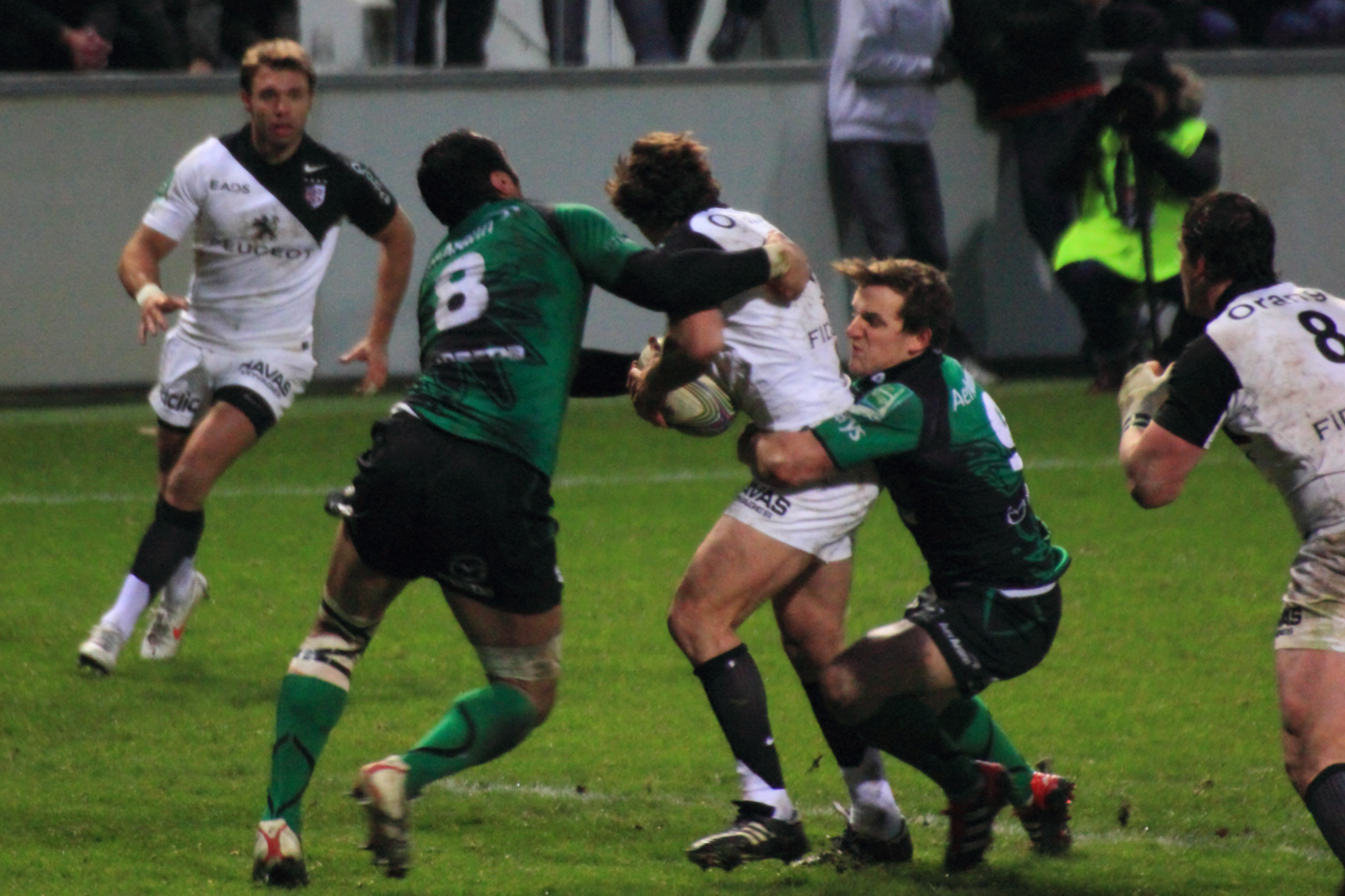 Heineken Cup 2011-2012 — 14 January 2012, Stade Ernest-Wallon. Match between: Stade toulousain — Connacht Rugby